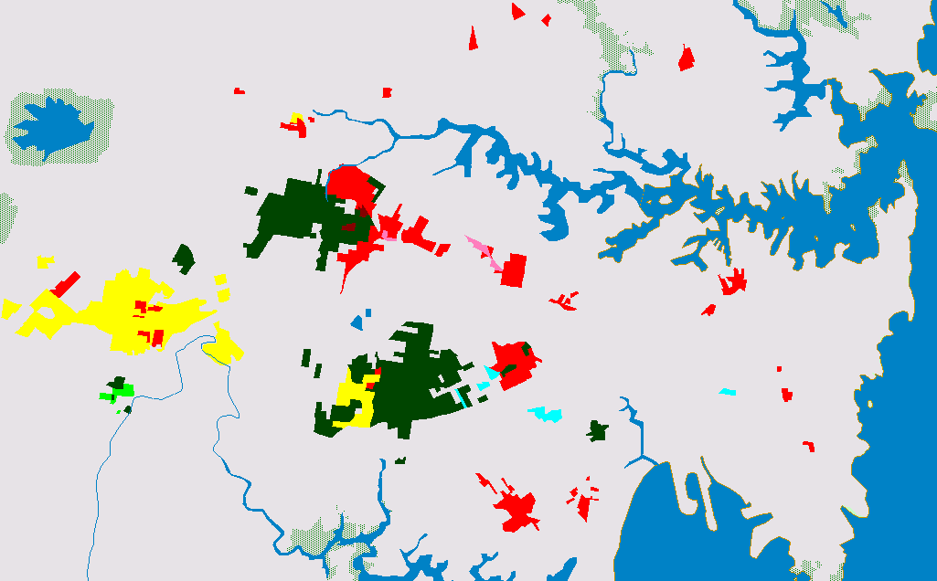 Collection districts in Sydney, Australia, denoting languages other than English most spoken at home according to the 2006 Census, including Chinese (red), Arabic (green), Vietnamese (yellow), Greek (light blue) and Korean (pink)